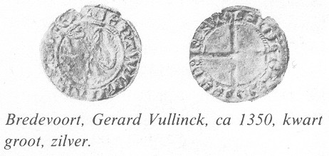 Coin printed in Bredevoort